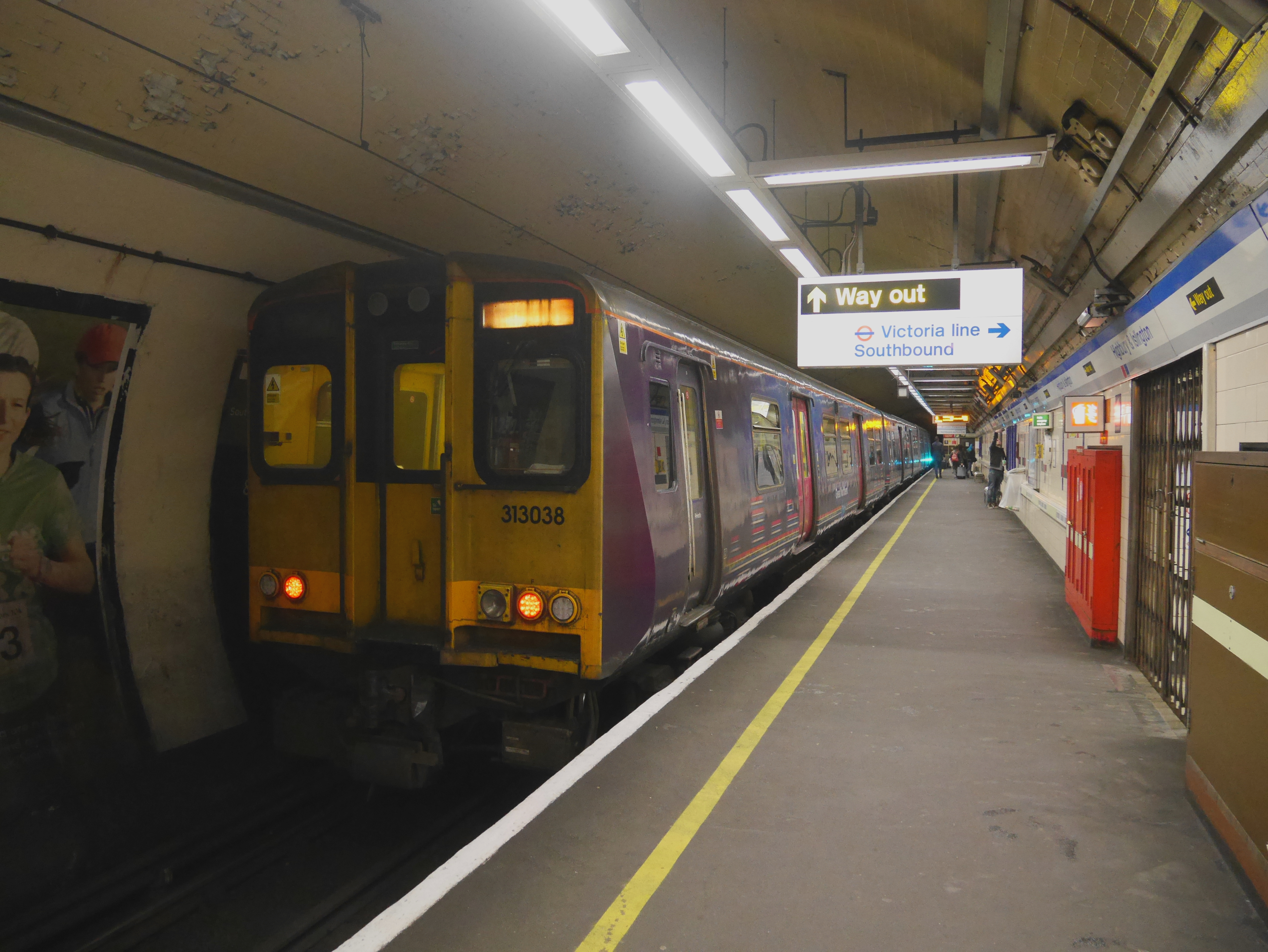 The 13:29 Great Northern service (GN 2J33) to Moorgate at Highbury & Islington station. It is operated with a single Class 313 train.